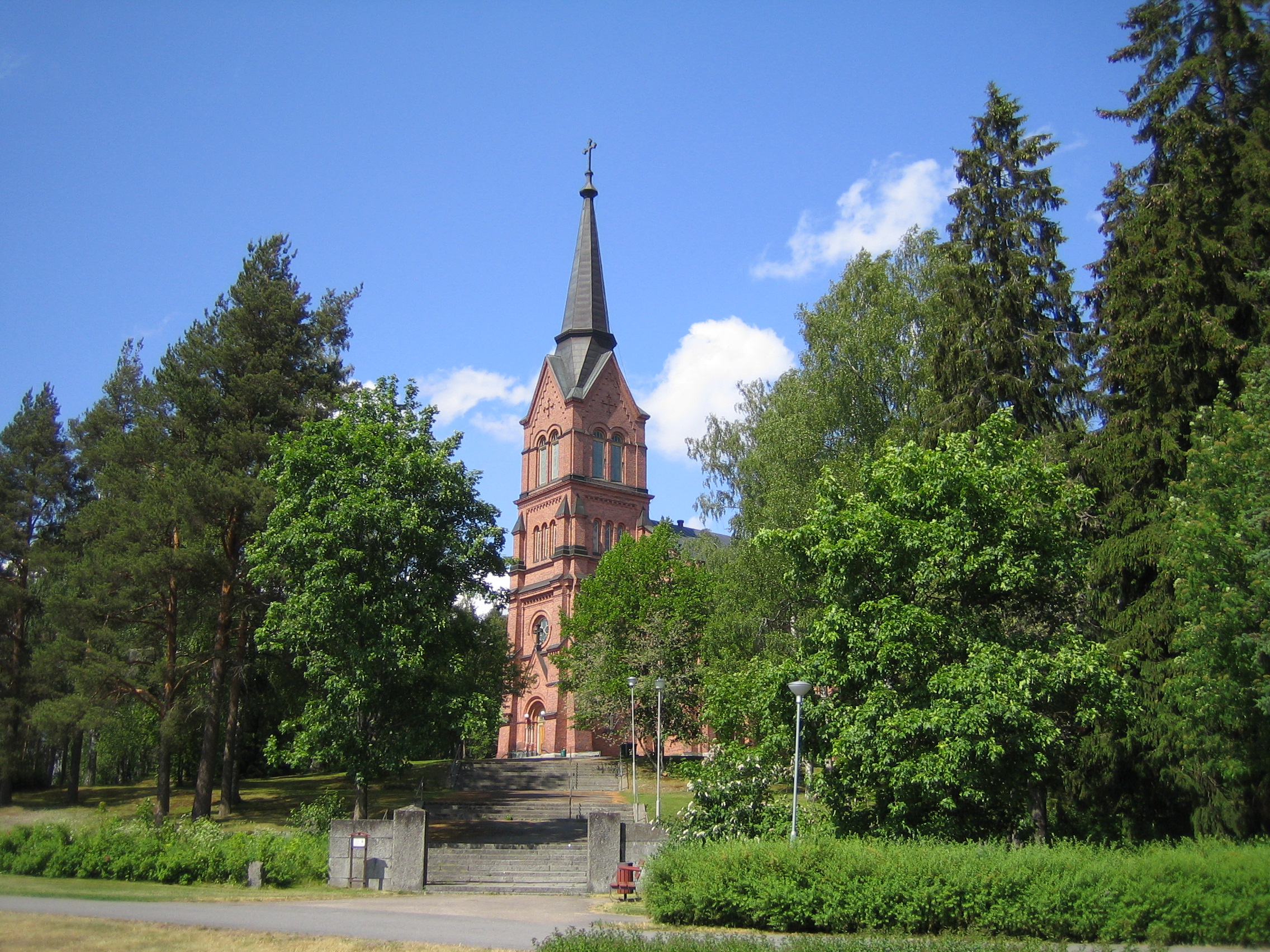 New Lutheran Church in Keuruu, Finland